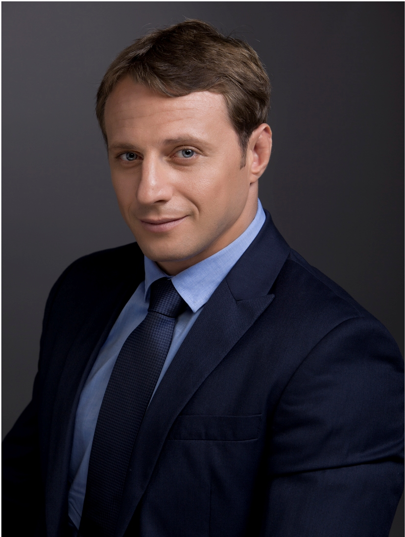 MK Yoel Razvozov